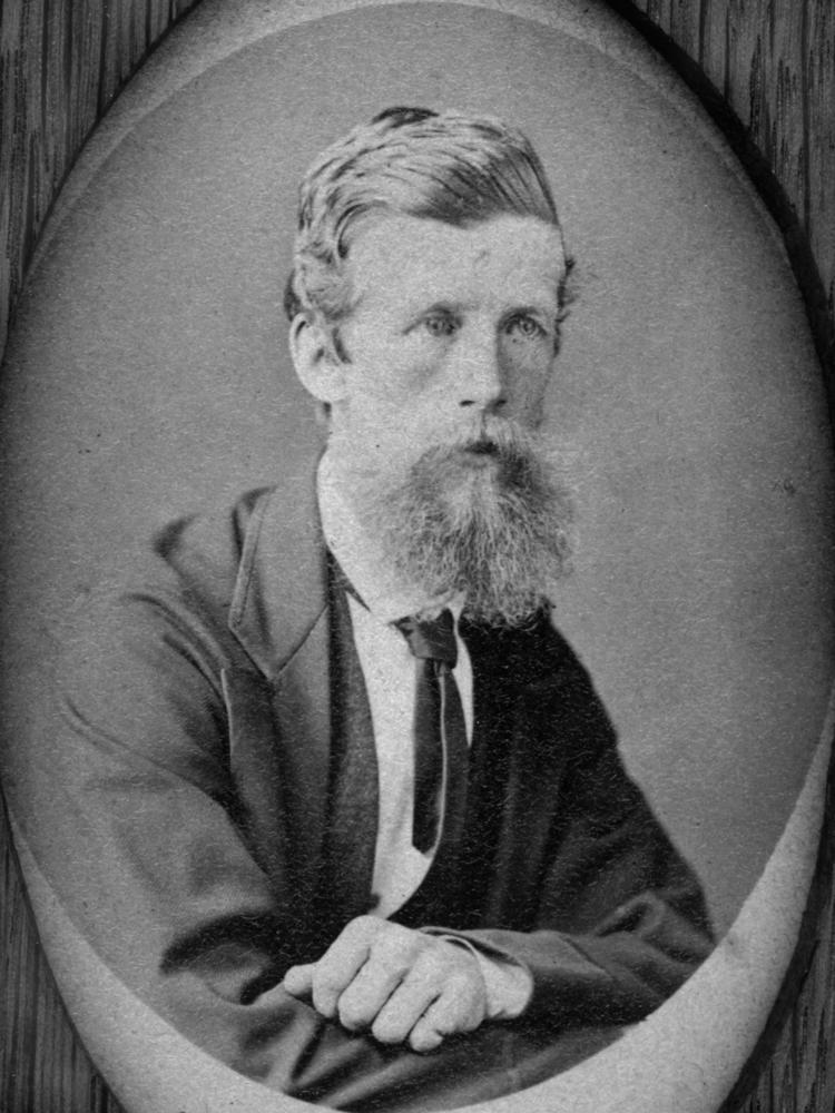 Honourable Charles James Graham, 1873. Squatter, newspaper proprietor and politician. Born: 7 October 1839 at Cambridgshire, England. Son of John and Francis, married Mary Joseph (nee Enright) and had three children. Member of the Legislative Assembly for Clermont from 11 May 1872 to 4 January 1876, Secretary of Public Lands from 15 July 1873 to 8 January 1874. Died aboard the ship, Parramatta, 18 march 1886 while on return voyage from the United Kingdom. (Description supplied with photograph.).